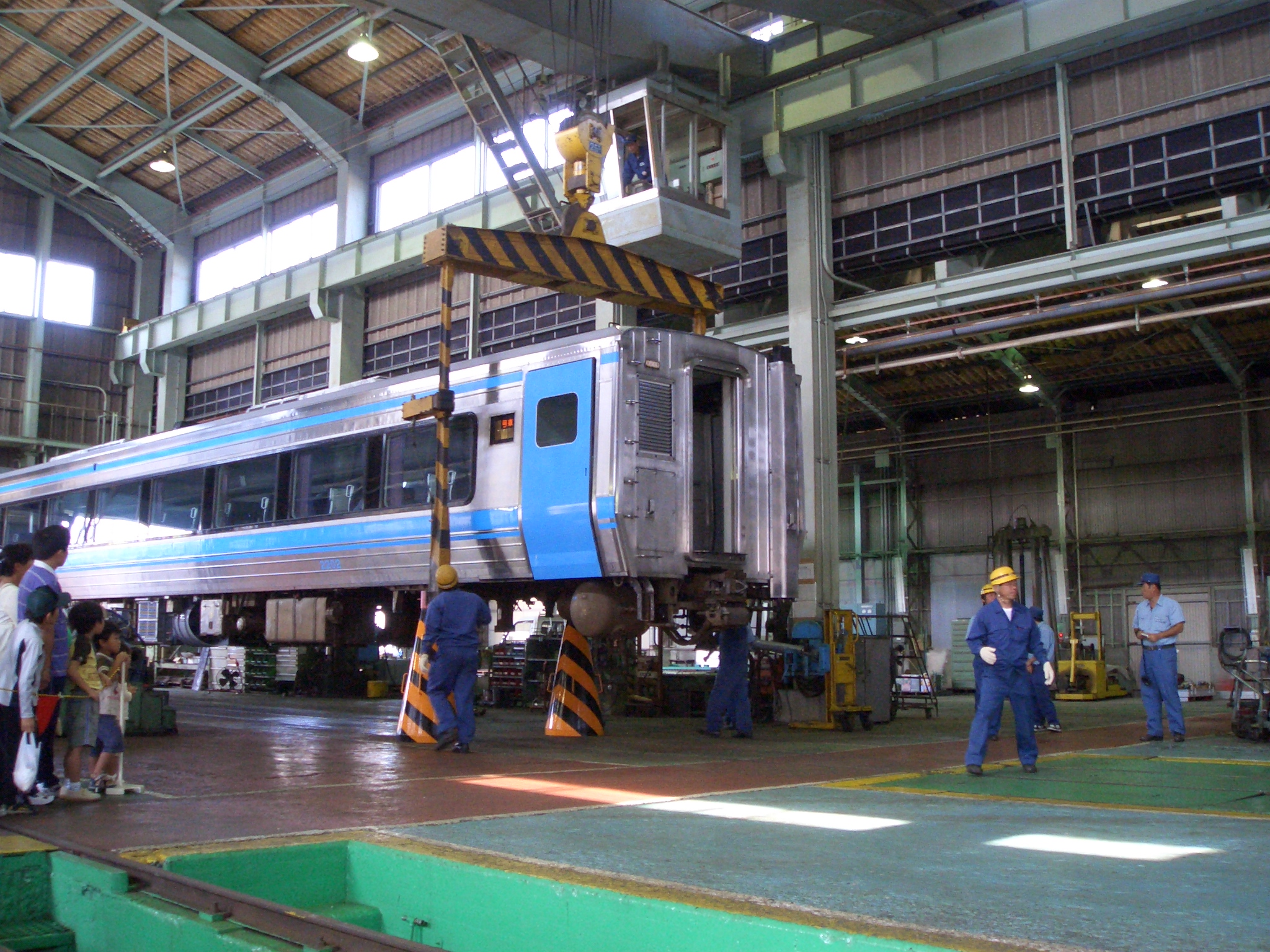 The train maintenance factory of Shikoku Railway Company at Tadotsu, Kagawa, Japan.